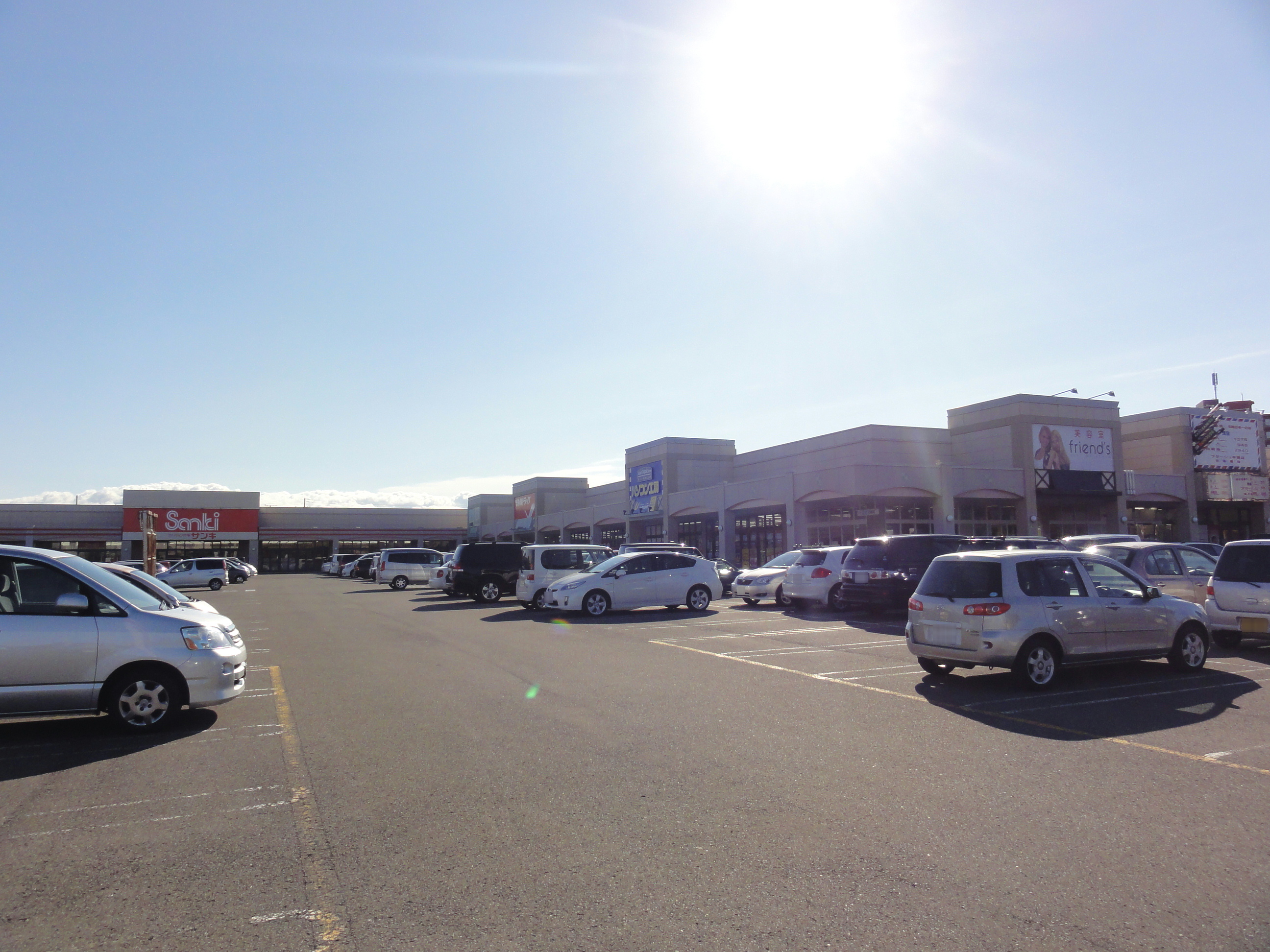 AEON TOWN Hiraoka (Kiyota-ku, Sapporo, Hokkaidō)